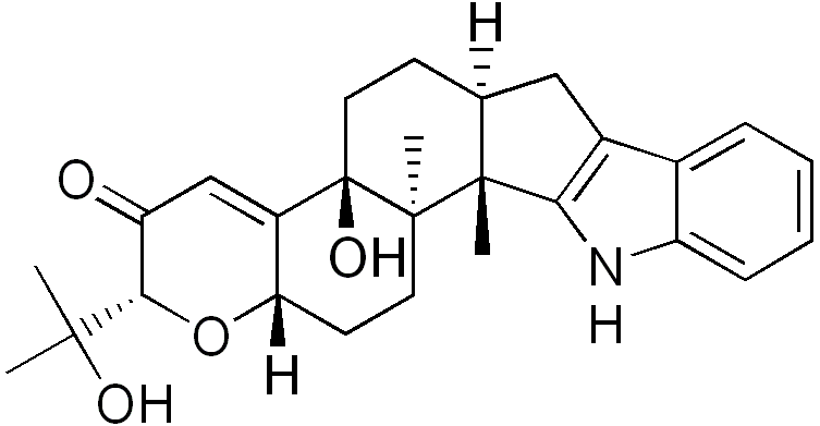 chemical structure of paxilline